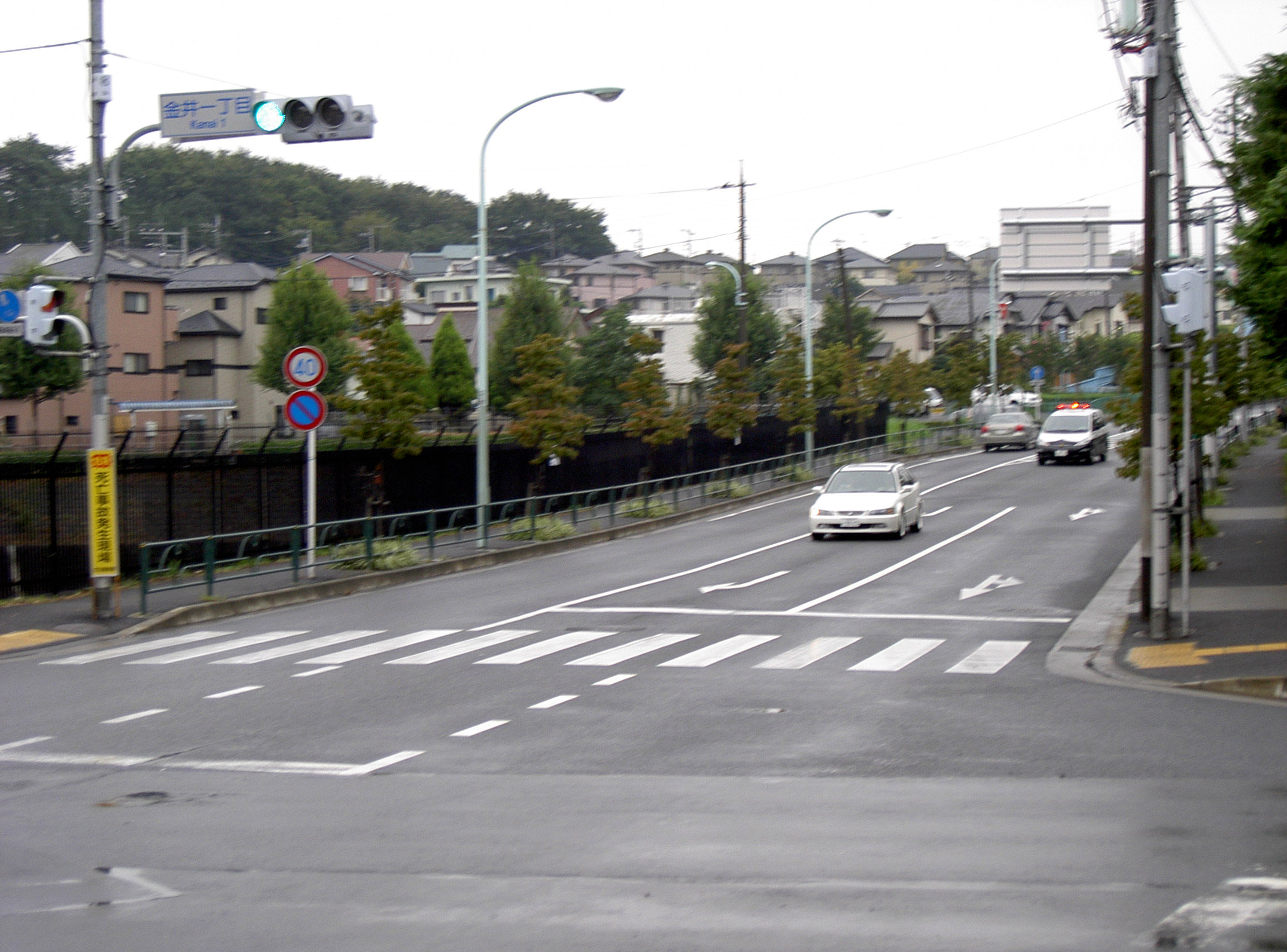 Tokyo prefectural road route 3, in Machida city ja: 町田市内を通る東京都道3号世田谷町田線